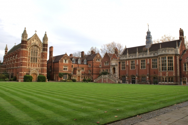 Selwyn College Cambridge Picture